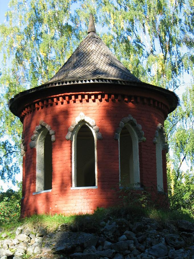 temple of happines in the Aulanko Nature Reserve next to Hämeenlinna